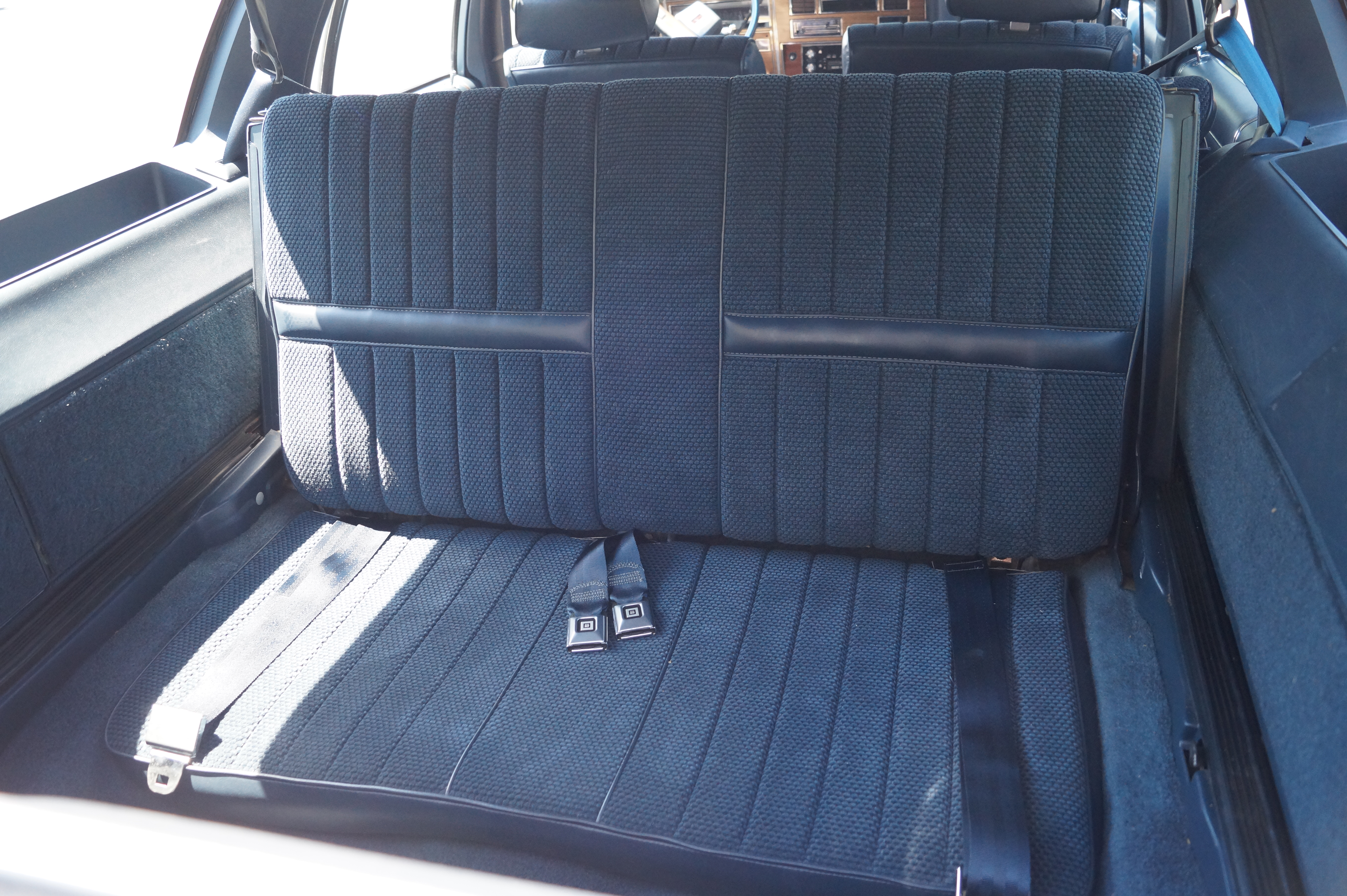 Click here for more car pictures at my Flickr site. Oldsmobile Club of America Minnesota Chapter 4th Annual Spring Dust Off Car Show & Swap Meet Unique Classics on 65 Ham Lake, Minnesota